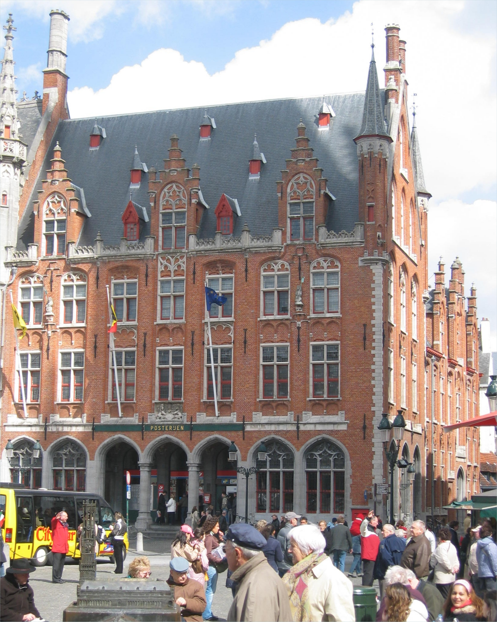 Post office, Bruges